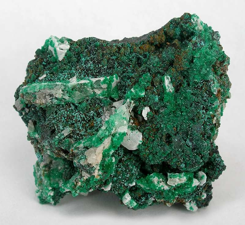 Arsentsumebite, Anglesite Locality: Tsumeb Mine (Tsumcorp Mine), Tsumeb, Otjikoto (Oshikoto) Region, Namibia (Locality at ) Size: 4.5 x 4.0 x 2.4 cm. A significantly rich specimen just loaded with arsentsumebite crystals on anglesite.